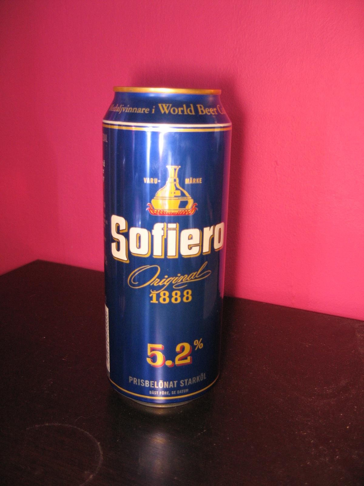 Sofiero 5.2% 50cl Swedish Beer.